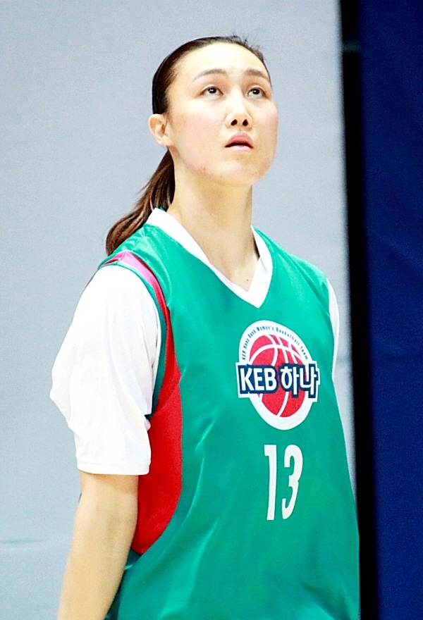 160210 여자농구 신한은행 vs 하나외환 직찍 2